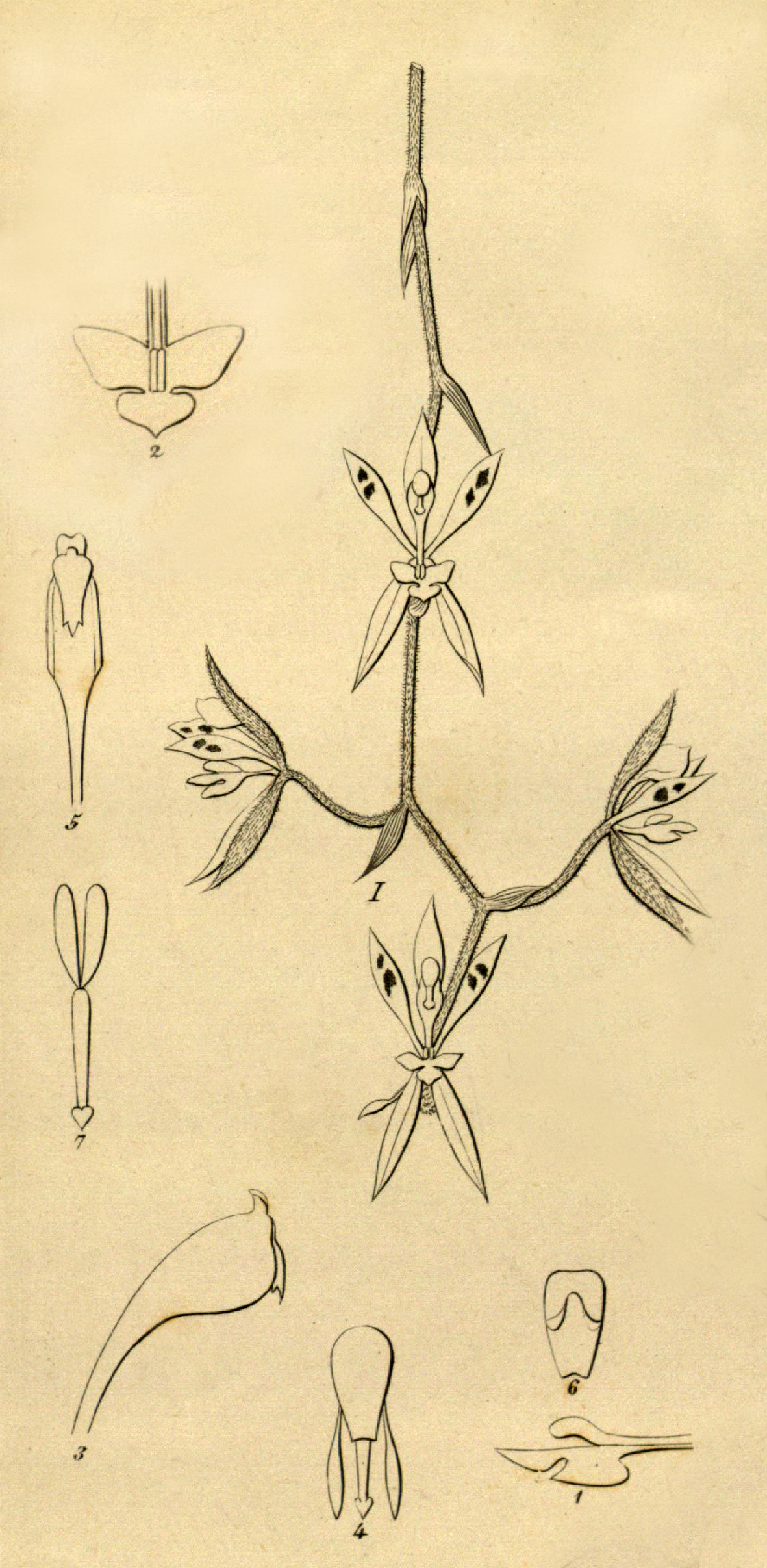 Illustration of: Kegeliella houtteana (as syn. Kegelia houtteana)